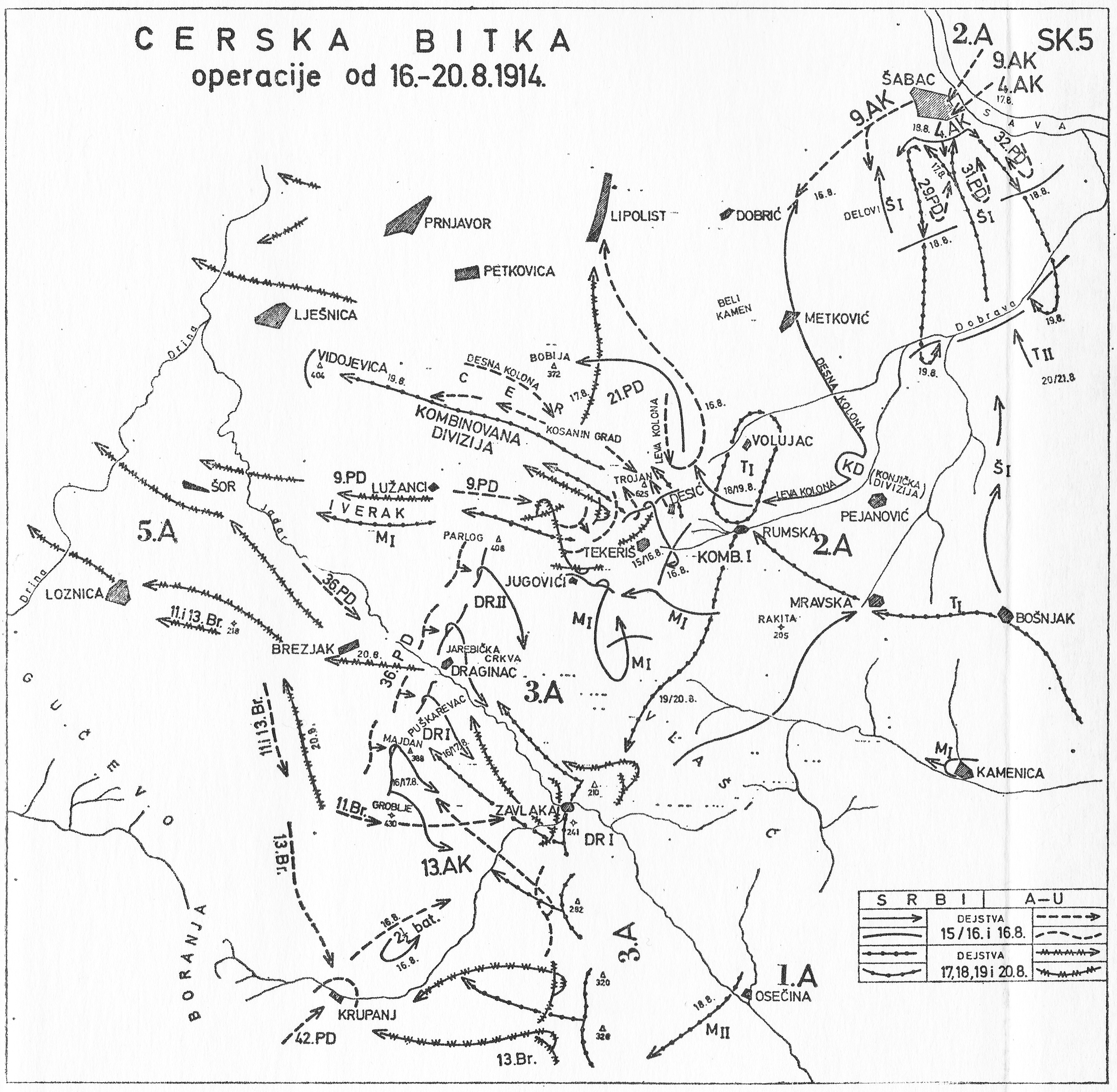 Battle of Cer (Serbia) 16-20. august 1914